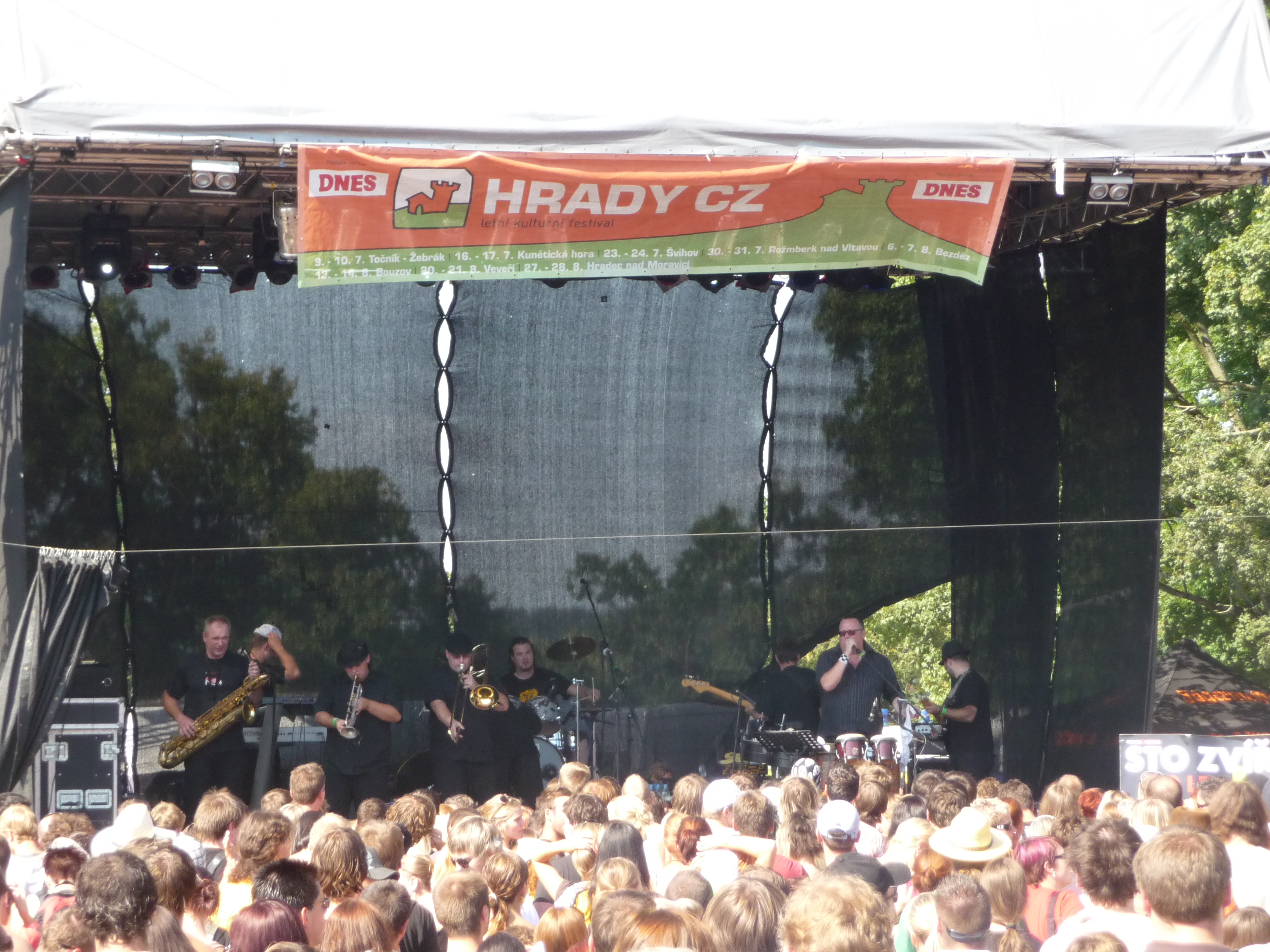 100 zvířat, festival Moravské hrady.cz, Veveří Castle